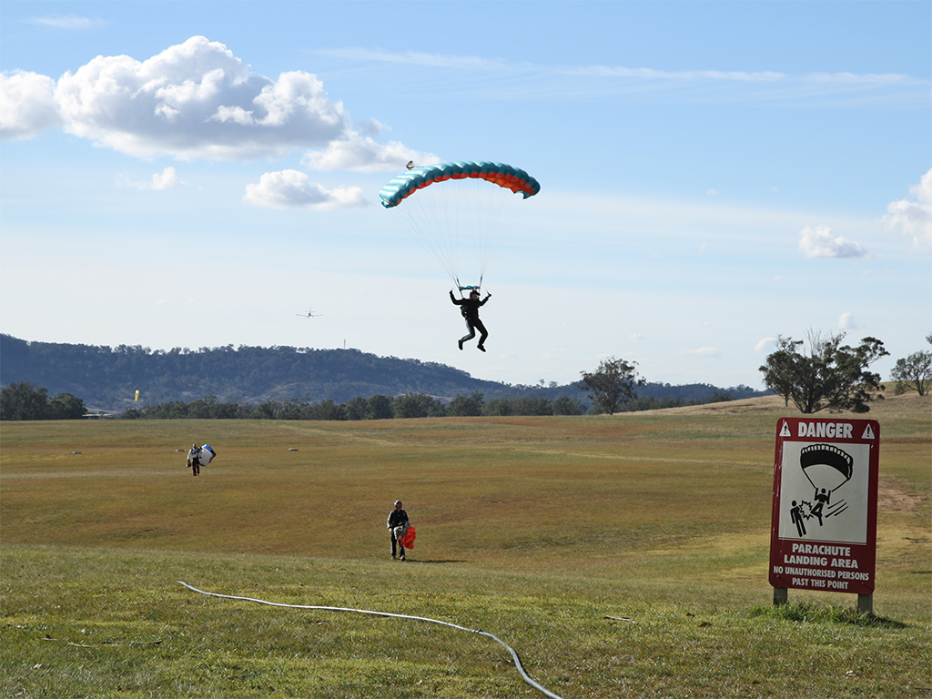 Sydney Skydiving Centre, Wilton, NSW Australia